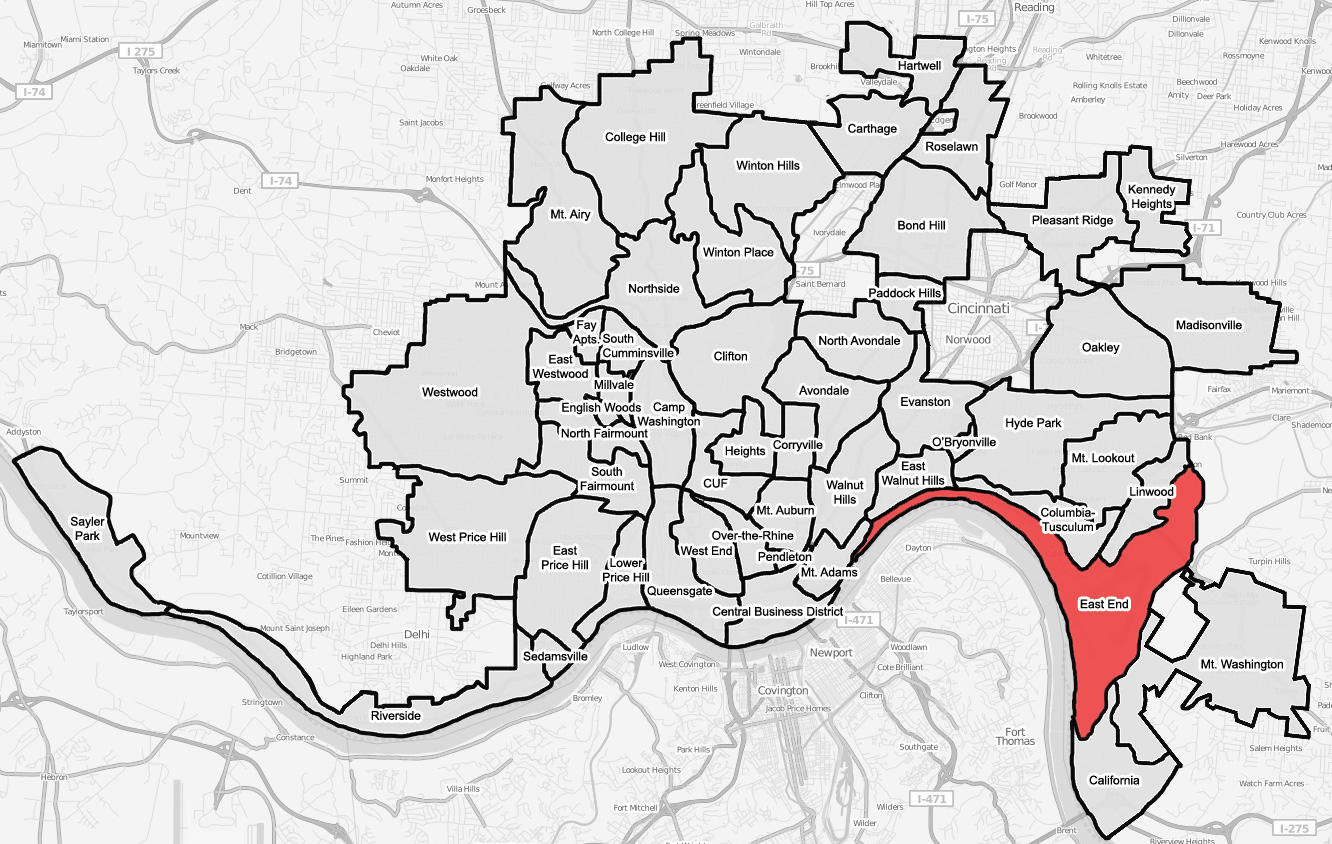 A map of the neighborhood of East End within Cincinnati, Ohio. Neighborhood lines are based on information from This street map is derived from a free map.